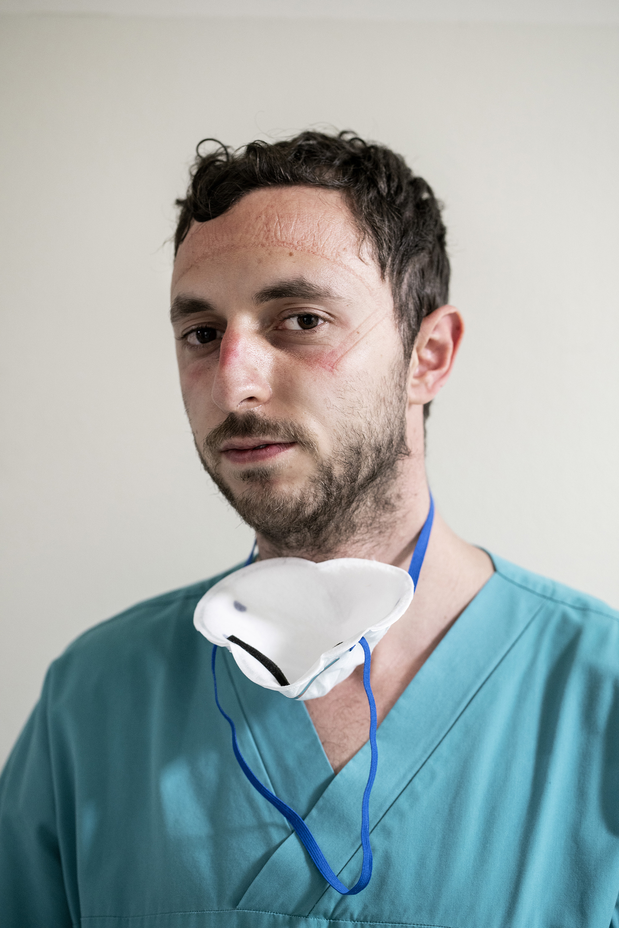 These are the doctors and nurses of the San Salvatore Hospital in Pesaro, Italy, the city of my birth and where I once again reside, which from day one has sadly been at the top of the COVID-19 contagion and death charts. I photographed them at the end of their shifts—twelve hours without a break during their fight in an unequal war. In the quiet moments in front of my camera, these embattled individuals are in a state of total abandon, victims of an exhaustion that eats away at the body and the mind, a breathlessness that renders one disoriented, detached from time and space. They would take off their masks, caps, and gloves in front of my lens, remaining motionless, looking for some sort of normalcy amid the hell they were living.